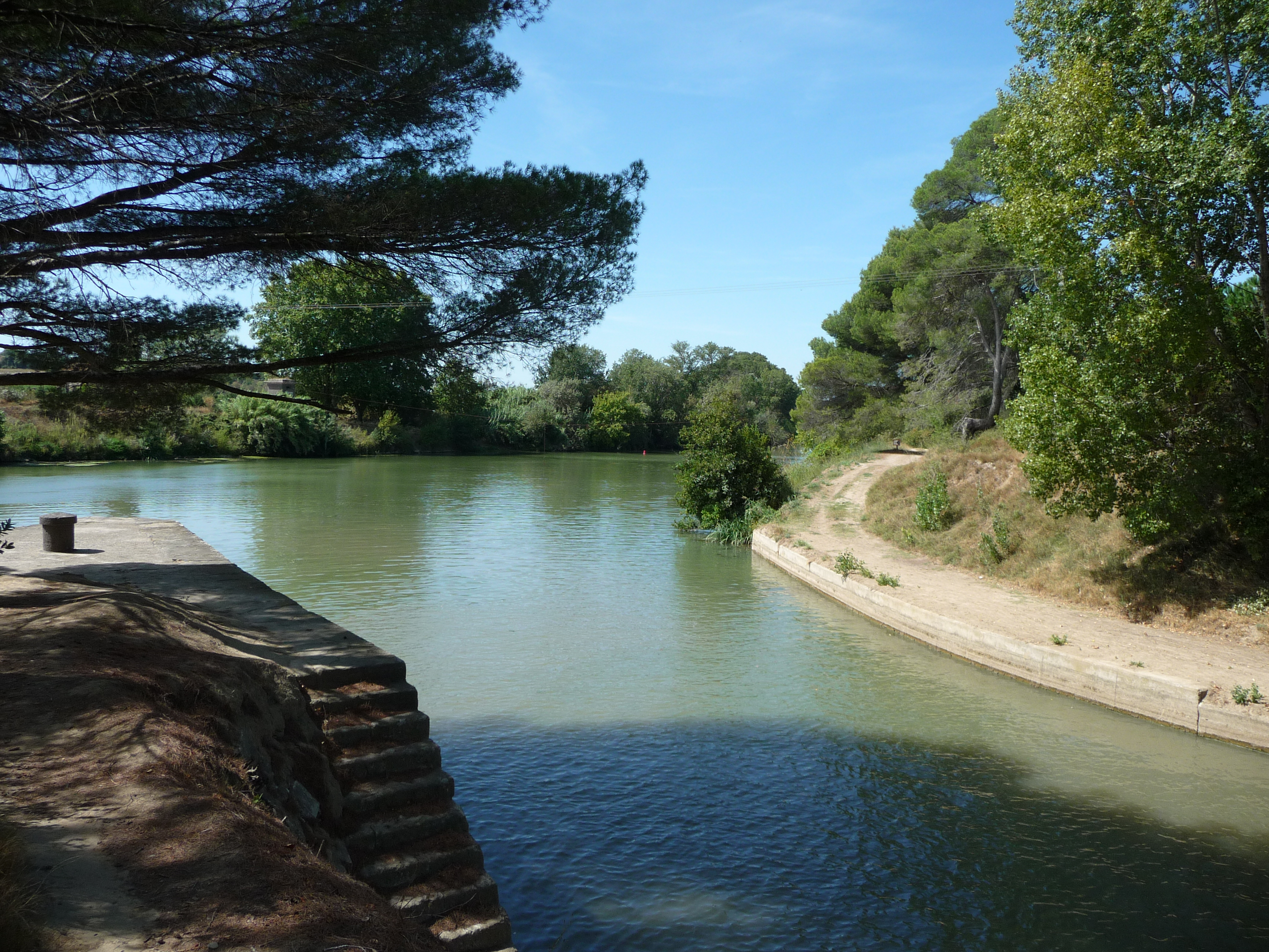 Canal de Jonction joins the Aude at Gailhousty